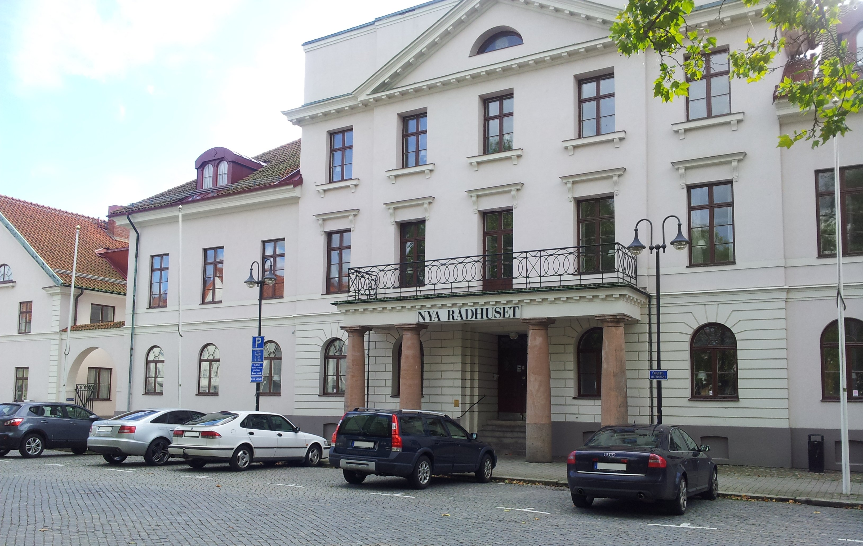 Ystad's municipal building